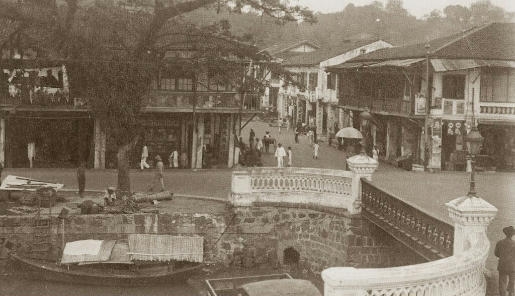 Sungai Segget at the junction of Jalan Wong Ah Fook and Jalan Ungku Puan in the 1920s–1930s.